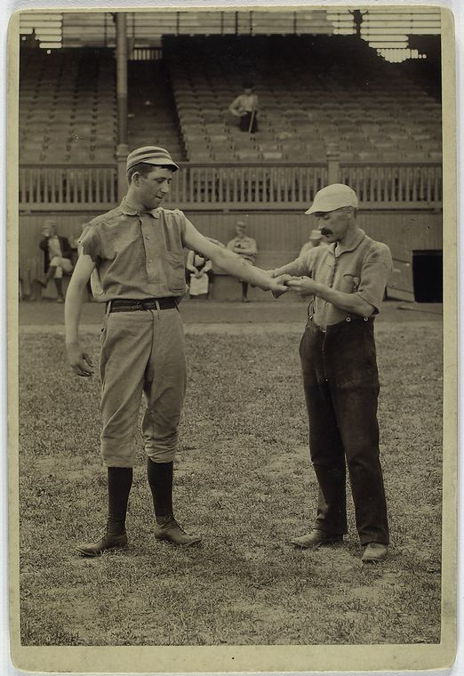 Harry Lyons with Billy Tailer, Trainer